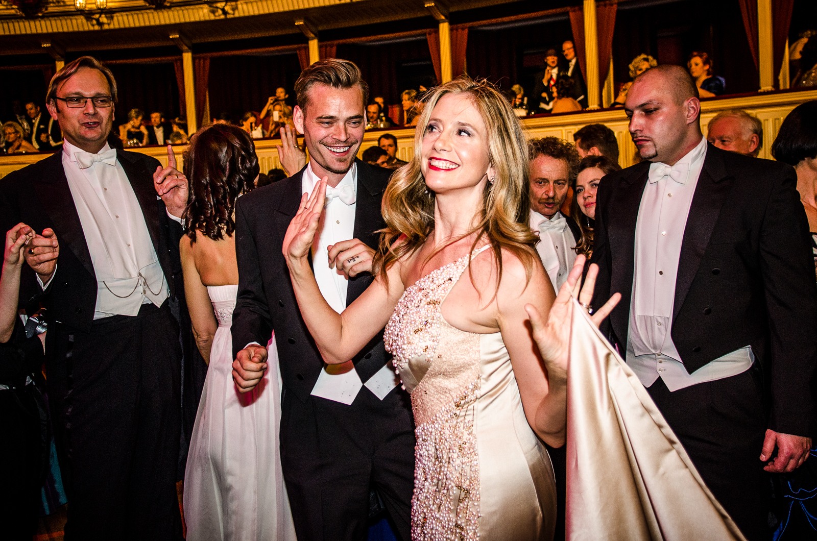 Mira Sorvino at the Wiener Opernball, Staatsoper, Vienna, Austria, February 8, 2013